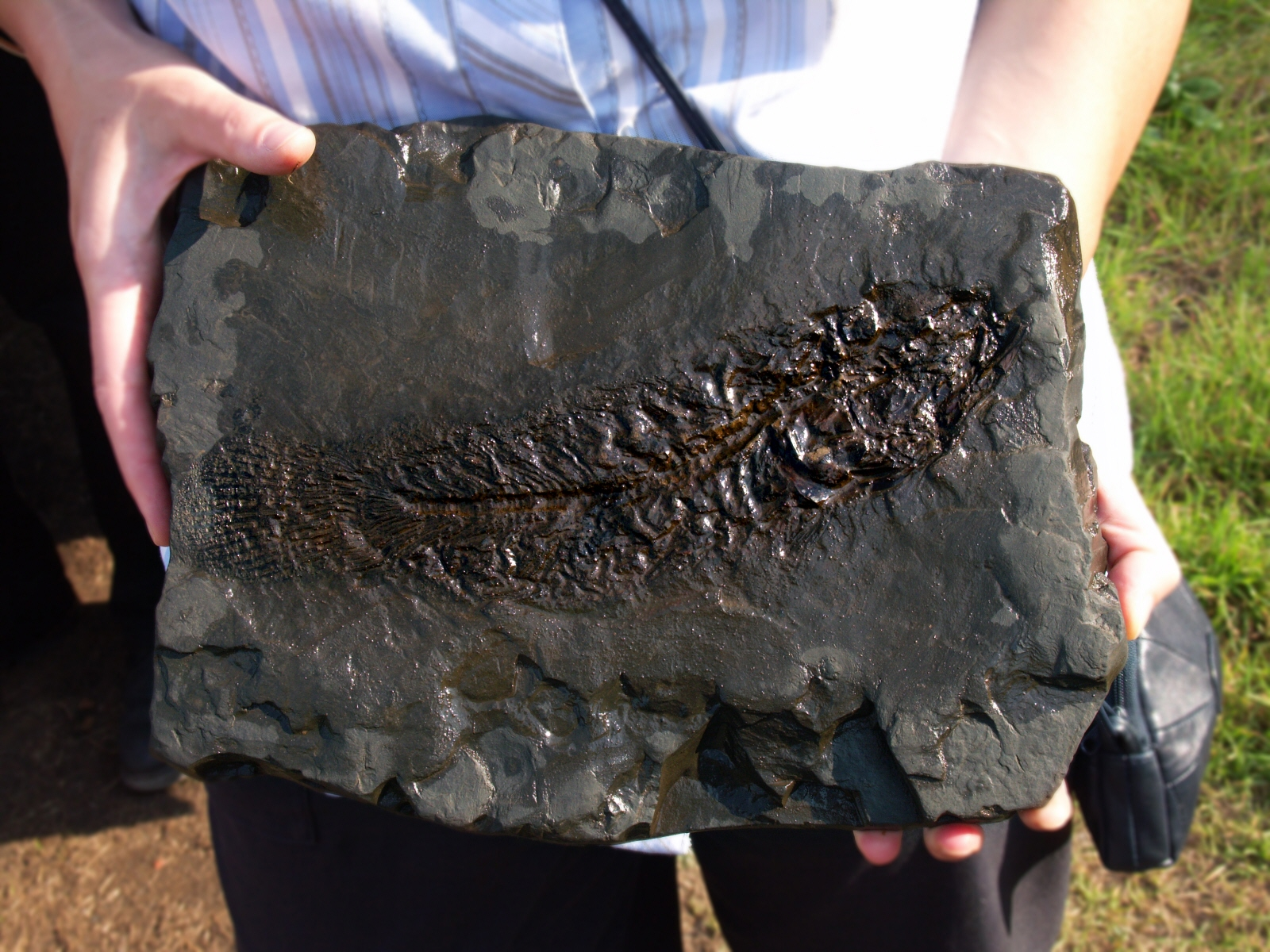 Description: Fossil from Grube Messel south of Frankfurt am Main, Germany. Source: taken by fafner